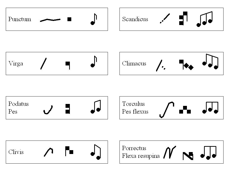 Neume-notation - early and later form, and modern notation. Zman 09:26, 3 June 2006 (UTC)